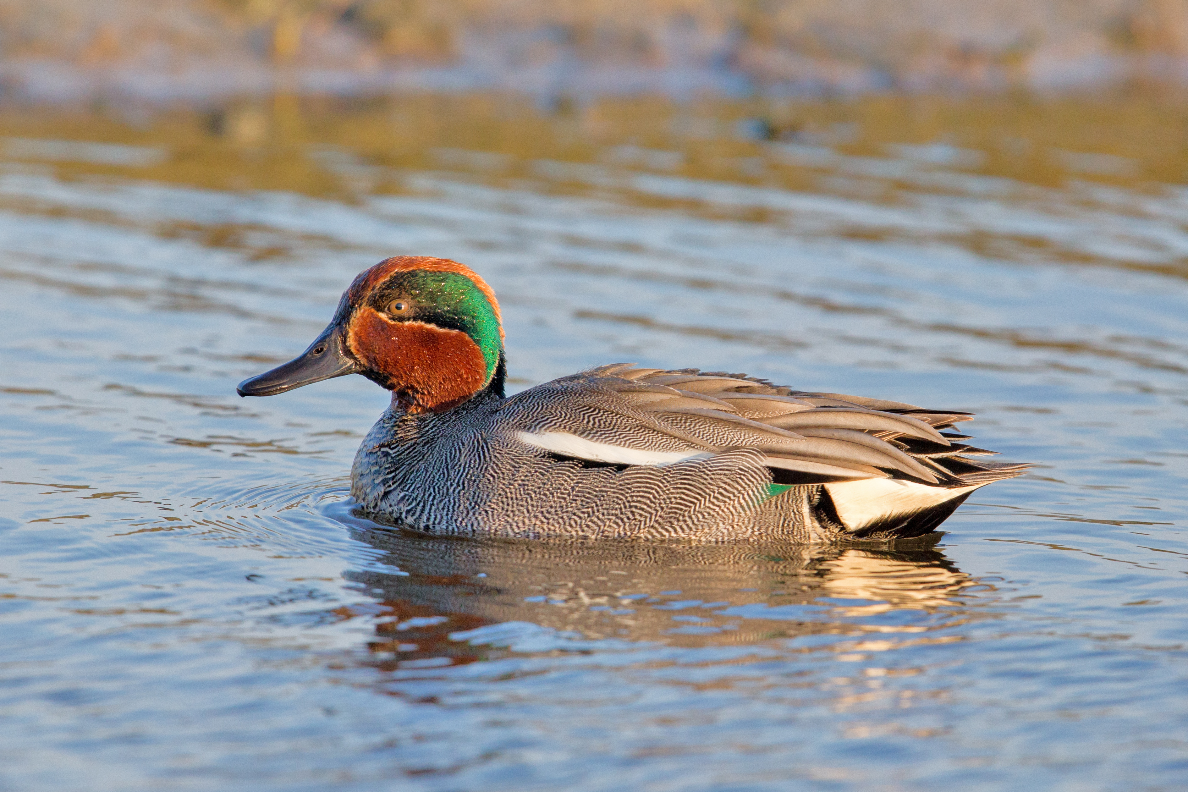 Eurasian teal, male